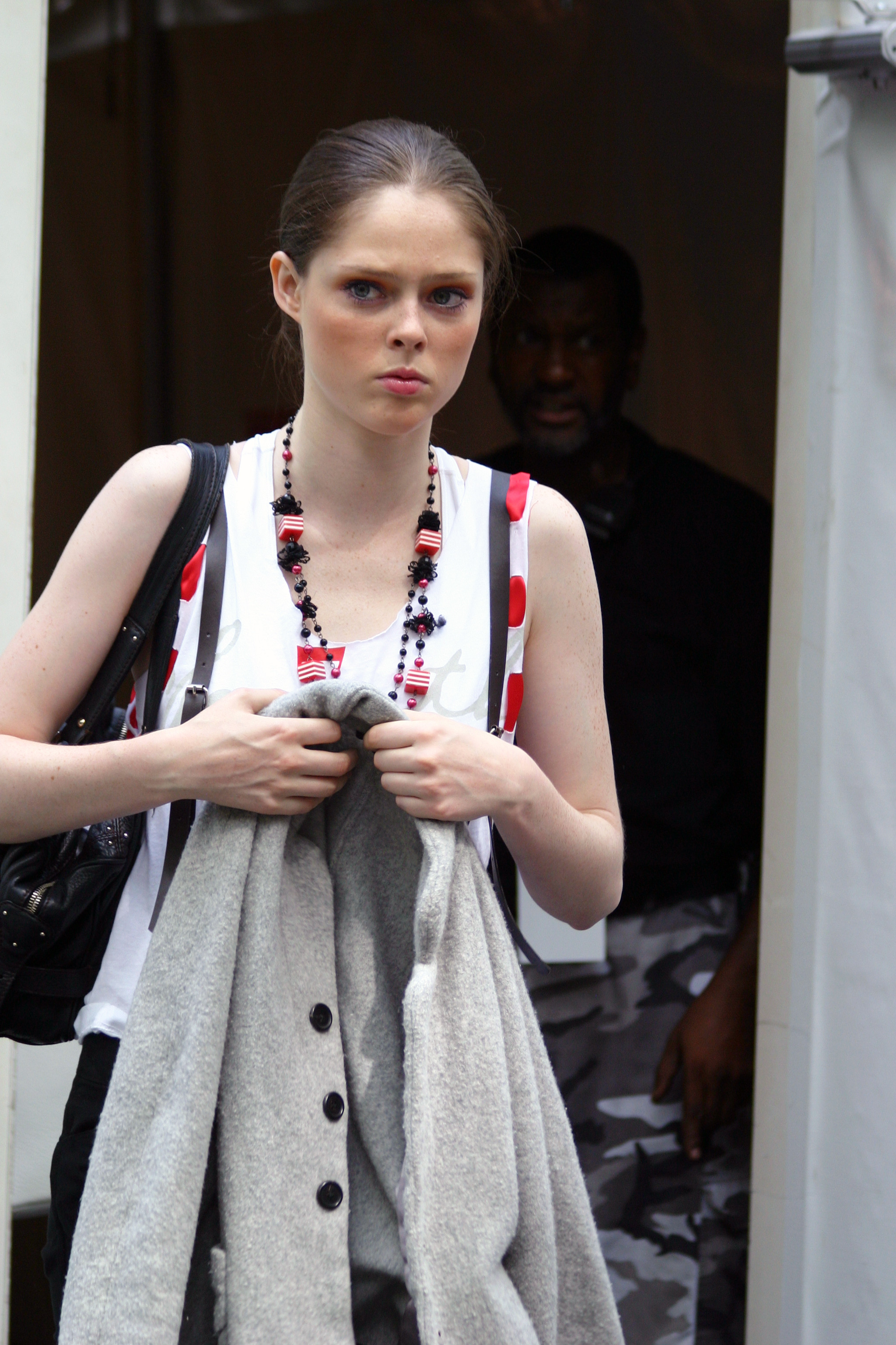 Supermodel Coco Rocha exiting the Bryant Park tents during Mercedes-Benz Fashion Week in New York City, September 9, 2007